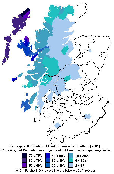 New version of the Gaelic Speakers in Scotland map (2001 Census data)